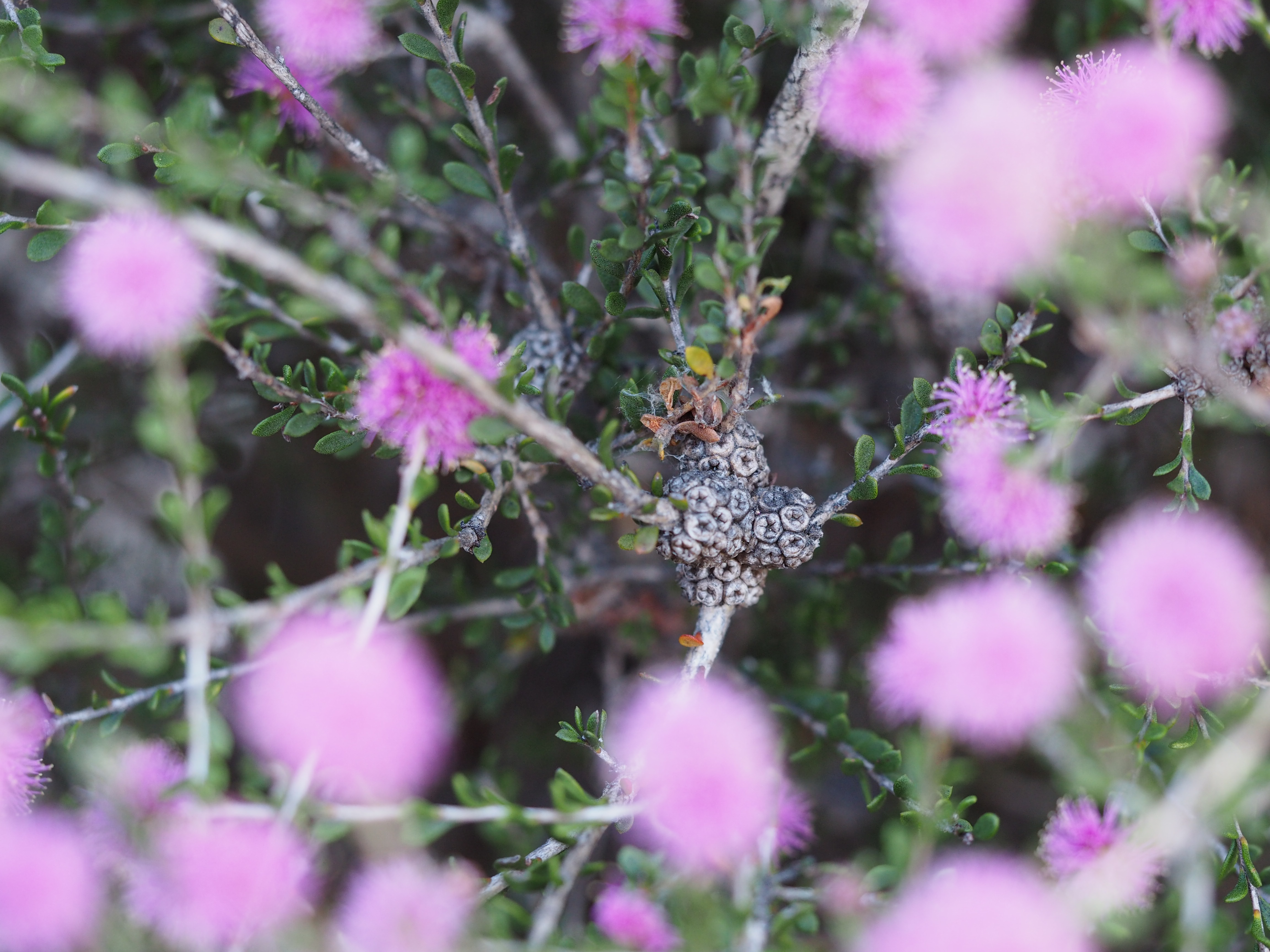 Melaleuca spathulata growing near Bluff Knoll Road